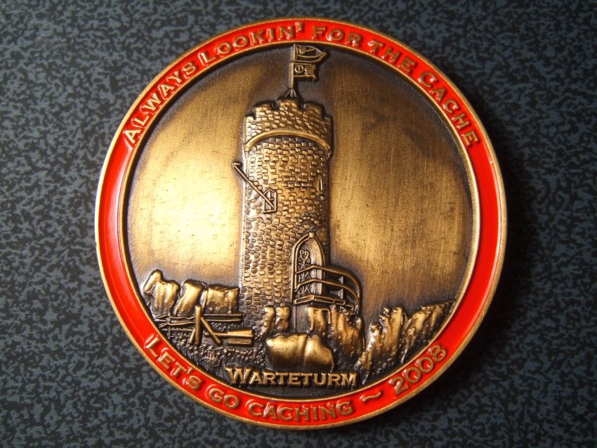 Geocoin